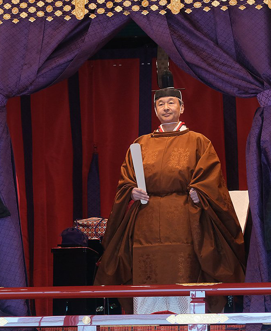 Coronation of Naruhito, the 126th Emperor.